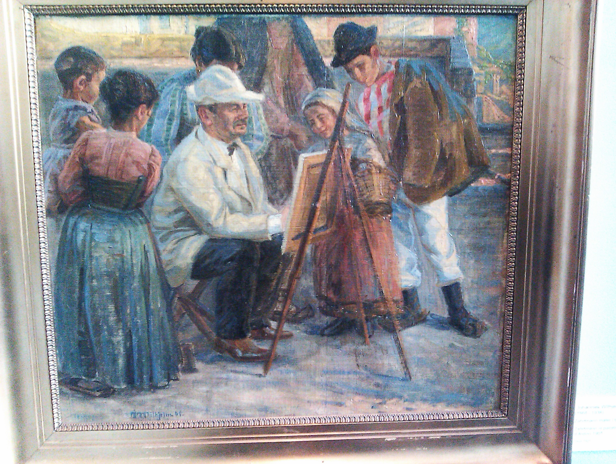 In this picture from 1905, the Danish painter Johannes Wilhjelm portraits fellow painter Kristian Zahrtmann working in the Italian village of Civita d'Antino